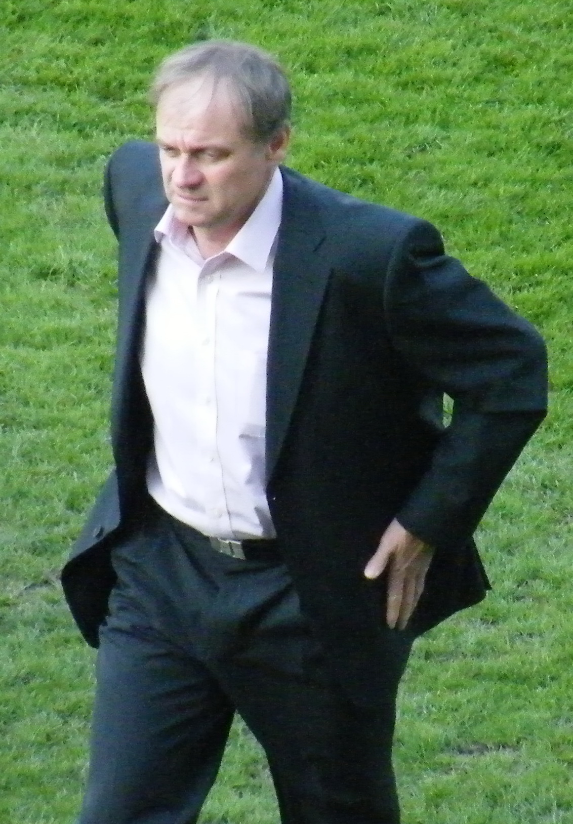 György Gálhidi Hungarian football player and coach